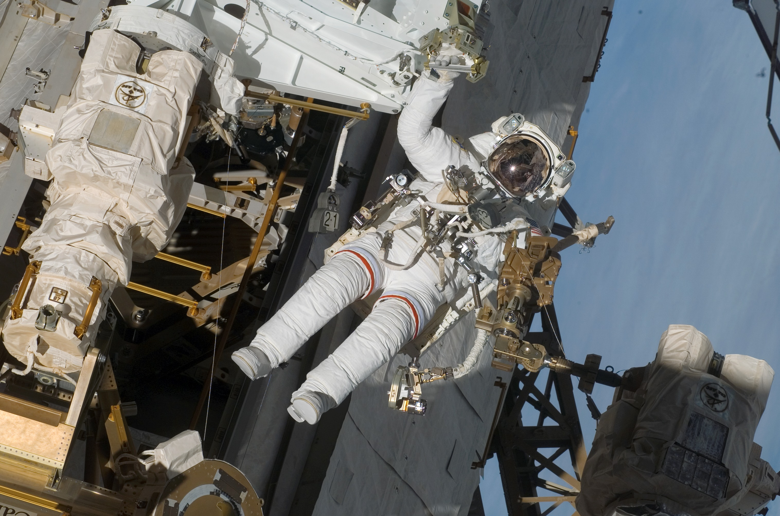 Astronaut Rick Linnehan, STS-123 mission specialist, participates in the mission's third scheduled session of extravehicular activity (EVA) as construction and maintenance continue on the International Space Station. During the 6-hour, 53-minute spacewalk, Linnehan and astronaut Robert L. Behnken (out of frame), mission specialist, installed a spare-parts platform and tool-handling assembly for Dextre, also known as the Special Purpose Dextrous Manipulator (SPDM). Among other tasks, they also checked out and calibrated Dextre's end effector and attached critical spare parts to an external stowage platform. The new robotic system is scheduled to be activated on a power and data grapple fixture located on the Destiny laboratory on flight day nine.